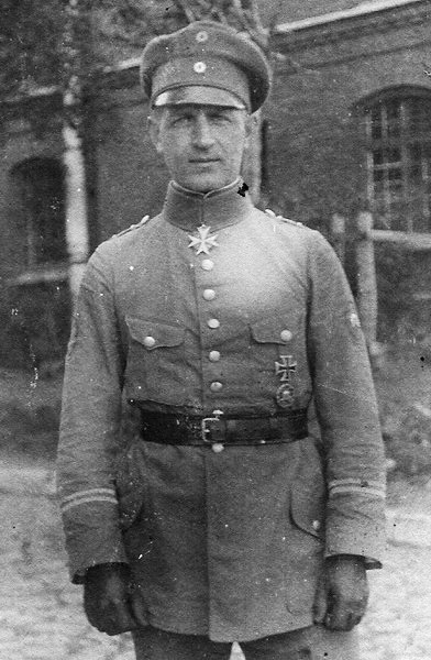 World War I Flying Ace Daniel Gerth (1891-1934) after being awarded the order Pour Le Meritè. Gerth, who continued to join the SA, was executed on July 1st 1934 by the SS during the National-Socialist Purge known as "Night of the Long Knives".